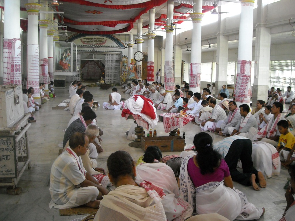 Naam-kirtan in Dhekiakhowa Bornamghor